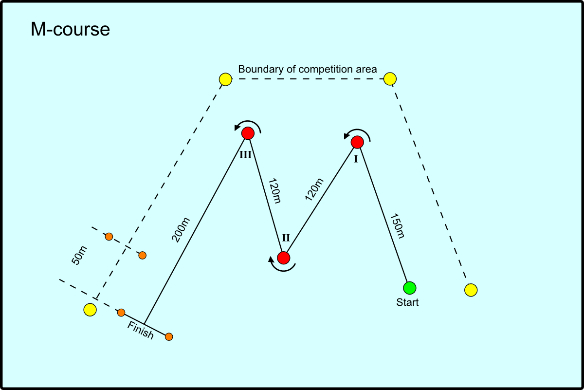 Underwater orienteering M-course